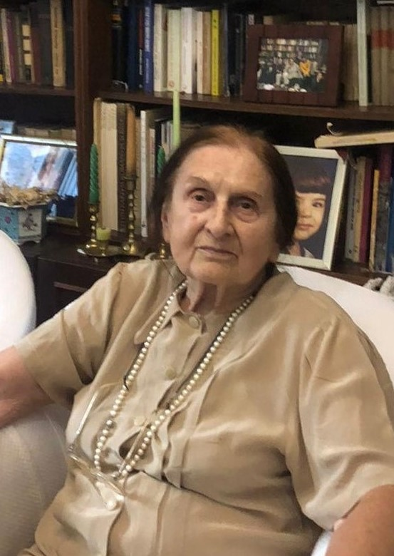 Nevenka Tadić, Serbian neuropsychiatrist, child psychiatrist and psychotherapist, mother of politician and former president of Serbia, Boris Tadić. Српски (ћирилица): Невенка Тадић, неуропсихијатар, дјечији психијатар и психотерапеут, мајка политичара Бориса Тадића.